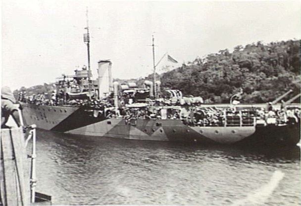 MACLAREN HARBOUR, NEW GUINEA. 1942-12-14. HMAS BALLARAT WITH TROOPS OF THE 2/9TH BATTALION, AIF, ABOARD. (ORIGINAL PRINT AT DRL 6204)